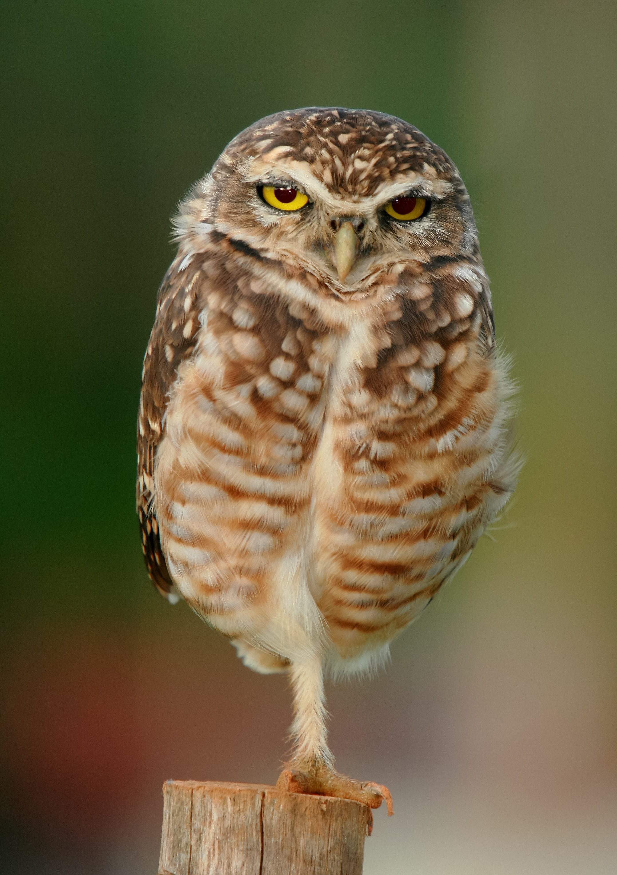 A Burrowing Owl near Goiânia, Goiás, Brazil. It is standing on one leg.